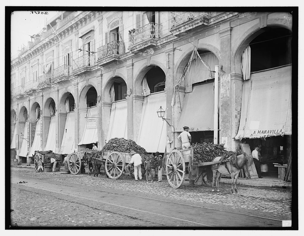 Plaza del Vapor.10. Havana, Cuba. 1904